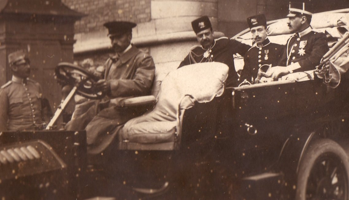 Teymourtash, myselfself, free domain